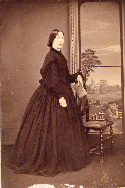 Henrietta Langhorne nee Long originally of Harston Hall, Cambridge, England. Married John Langhorne, headmaster of Rochester School, England